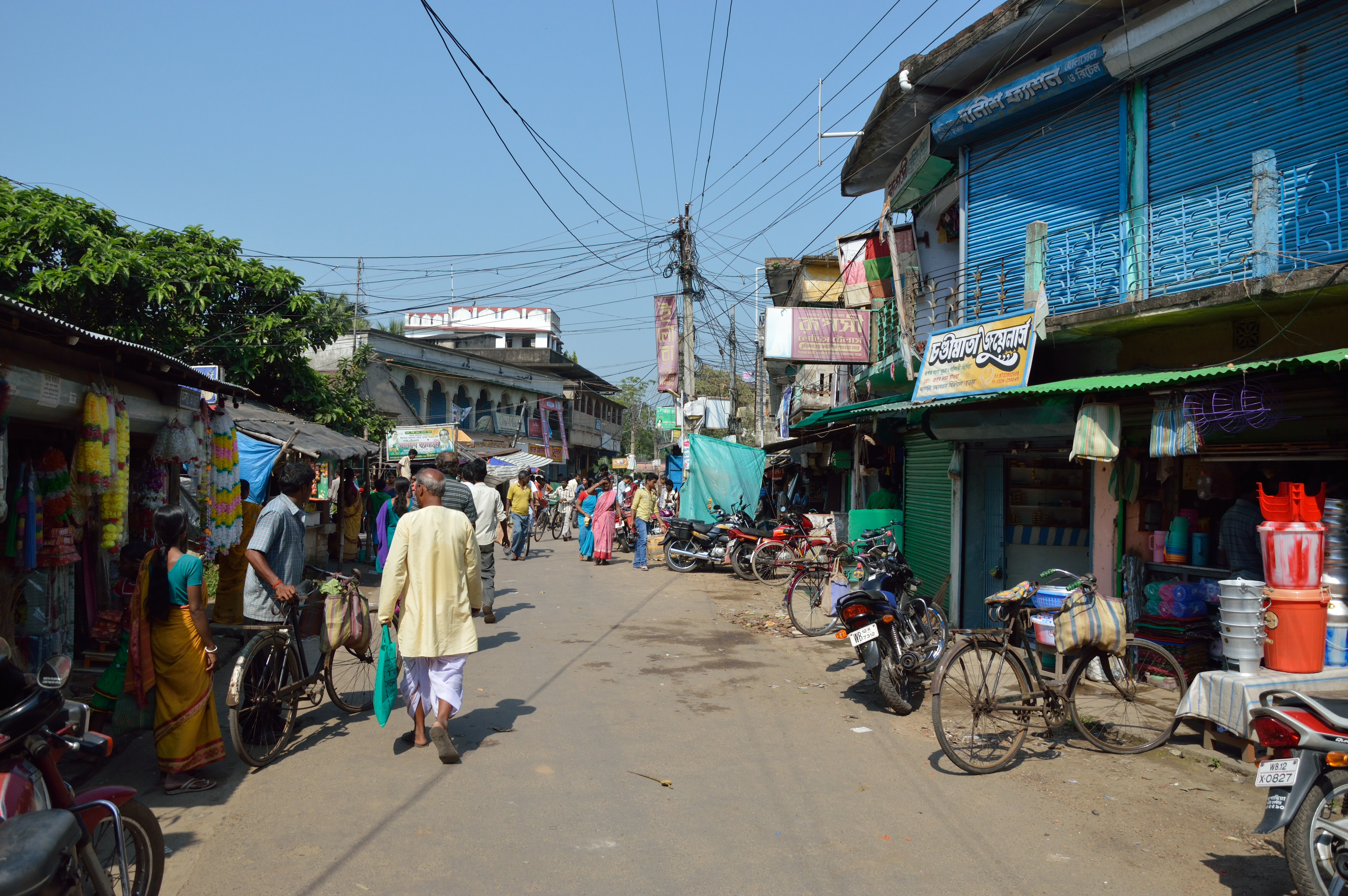 Photographed in Howrah.